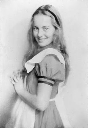 Olivia de Havilland promotional card for the 1933 stage production of Alice in Wonderland by the Saratoga Community Players, Saratoga, California